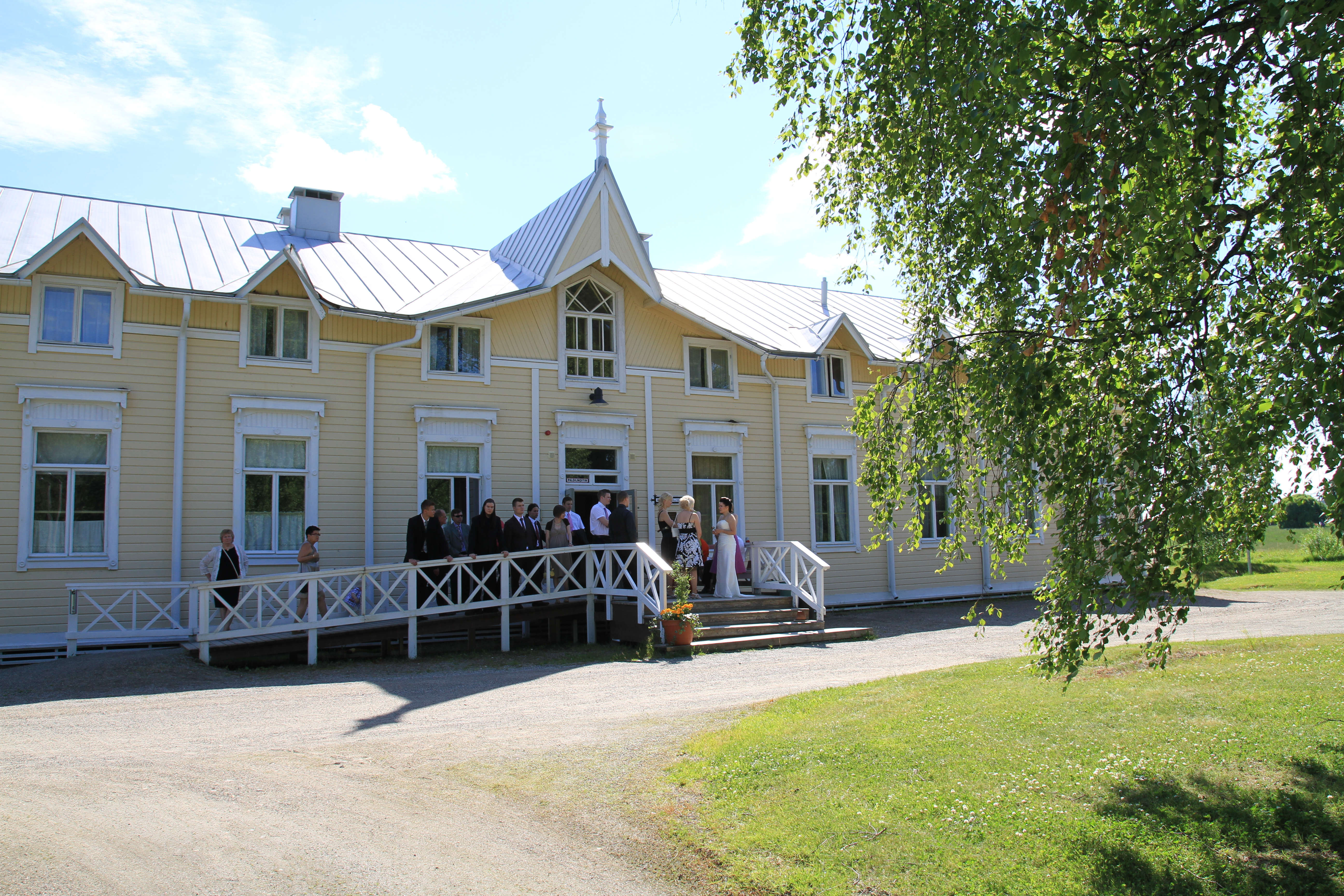 Runni Spa, Iisalmi